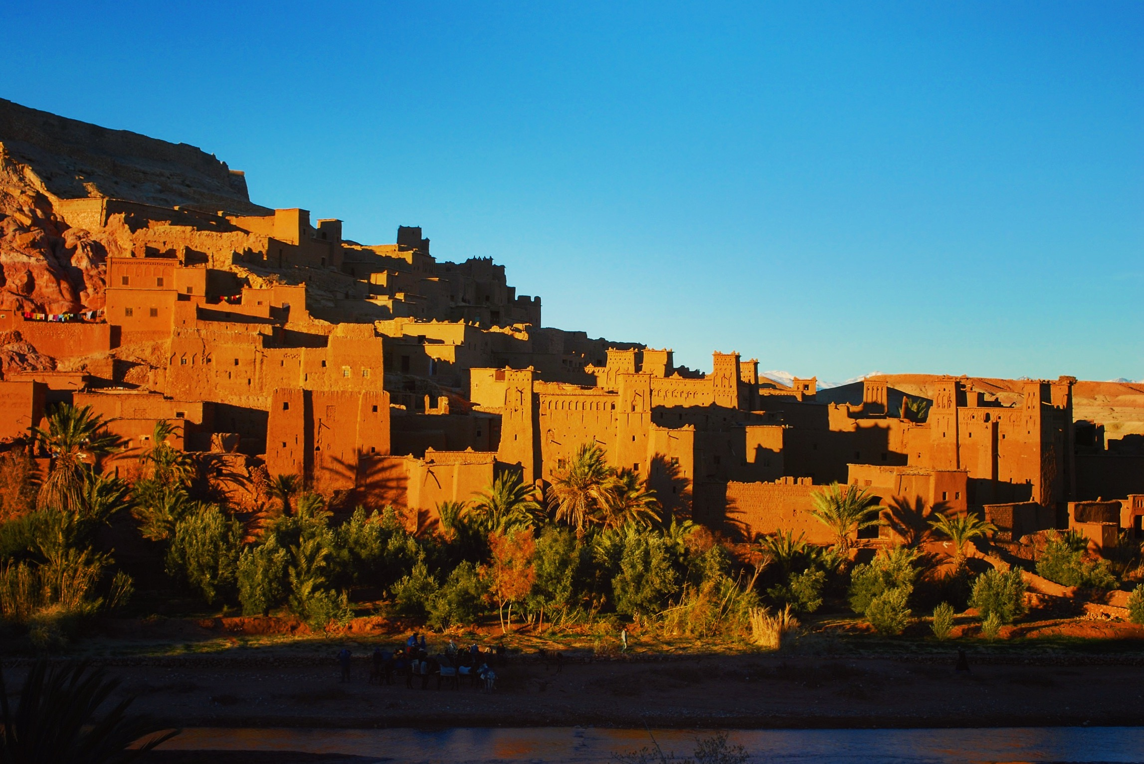 The picture shows the ksar of Aït Benhaddou in Morocco.